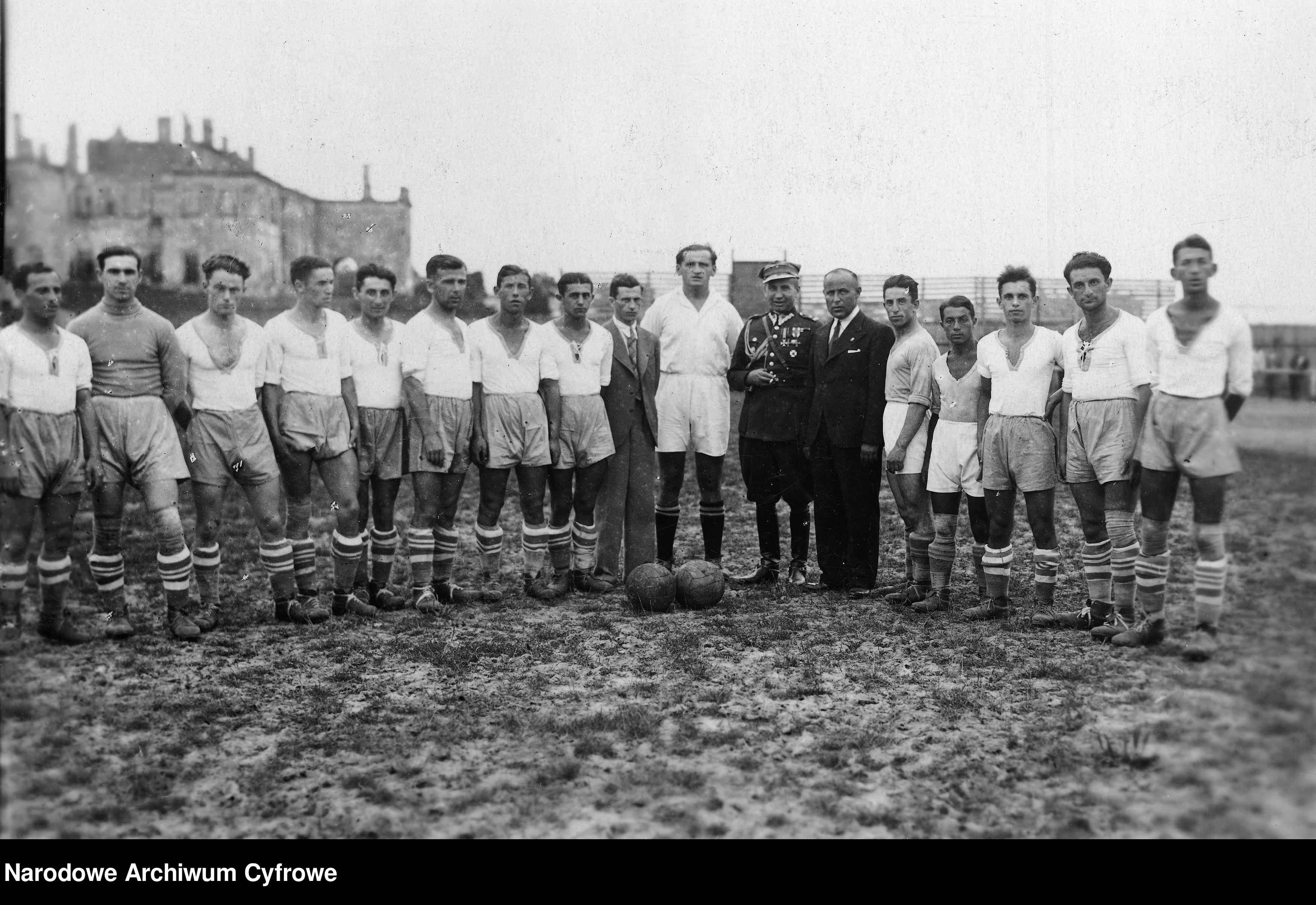 Visit of the chairman of the Wolyn Regional Football Association, Major Leopold Okulicki, to the Jewish Sports Club Hasmonea Rowne. Poland. The president of the Wolyn Regional Football Association Major Leopold Okulicki and coach Karol Kossok (in white dress) surrounded by the players and activists of the Hasmonea Rowne club. August 1935. Poland.